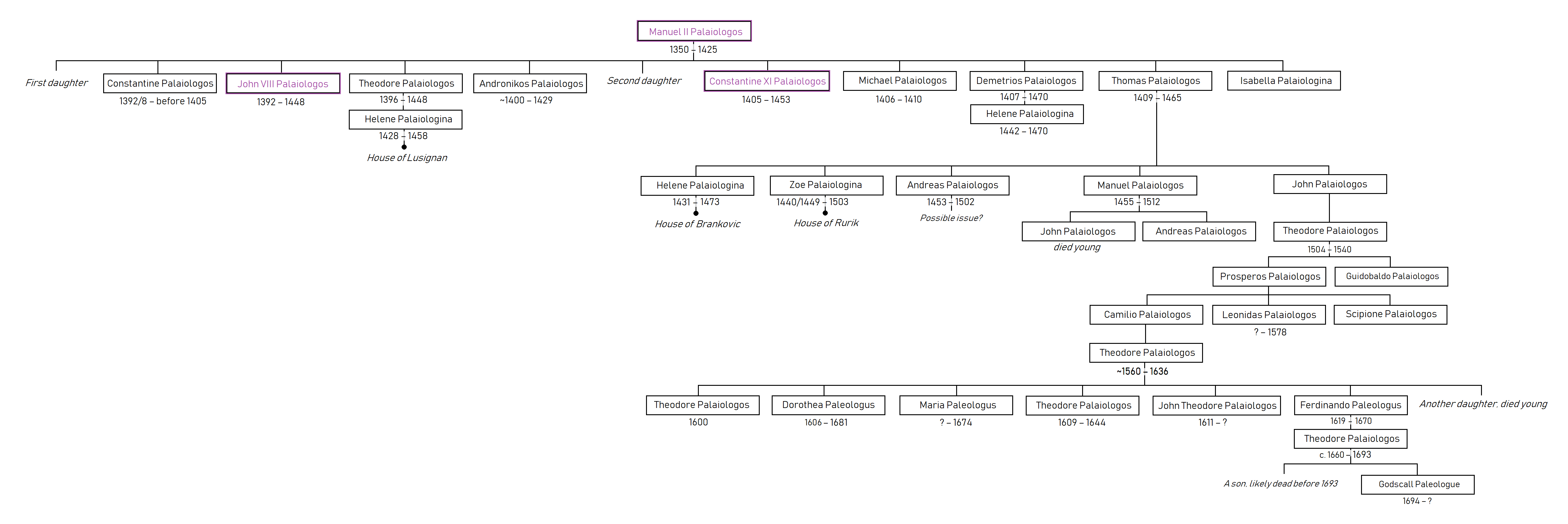 Genealogy of the Palaiologos dynasty from Manuel II to its last recorded members; main sources were the articles on Manuel II, Thomas and Andreas Palaiologos and D. M. Nicol's Byzantium and England (1974)